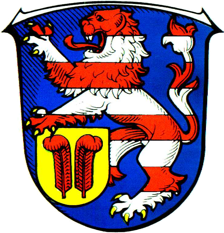 Coat of Arms of Malsfeld